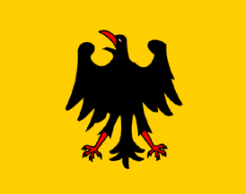 Reconstruction of the flag used by the German kings in the later medieval period (c. 12th to 14th centuries). The existence of such a flag is certain for the 14th century, likely for the 13th century, and uncertain for the 12th century. It was used by emperor Henry VII in his Italian campaigns, and is repeatedly depicted in this context in Codex Balduini Trevirensis (c. 1340). In the Kassel Willehalm Codex (c. 1336), the same flag is (anachronistically) shown in a battle scene of Charlemagne. According to Meyers Konversations-Lexikon of 1897 (s. v. "Banner"), the German Imperial Banner since the time of Sigismund (1430s), and "perhaps earlier" showed the Imperial Eagle, viz. a double-headed black eagle in a yellow field. The banner used by some of the German kings or emperors of the late 12th and early 13th century may have shown an eagle, in the case of Otto IV an "eagle hovering over a dragon".